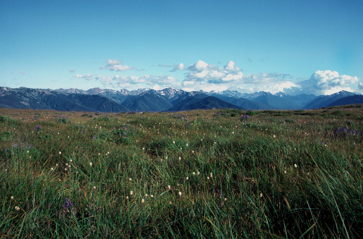 The wilderness of Olympic National Park from the high meadows of Hurricane Ridge. Except for a few primitive access roads around the perimiter, the entire area seen here is accessable only by trail or cross-country travel.